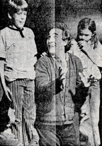 Alex Horn 1973 play